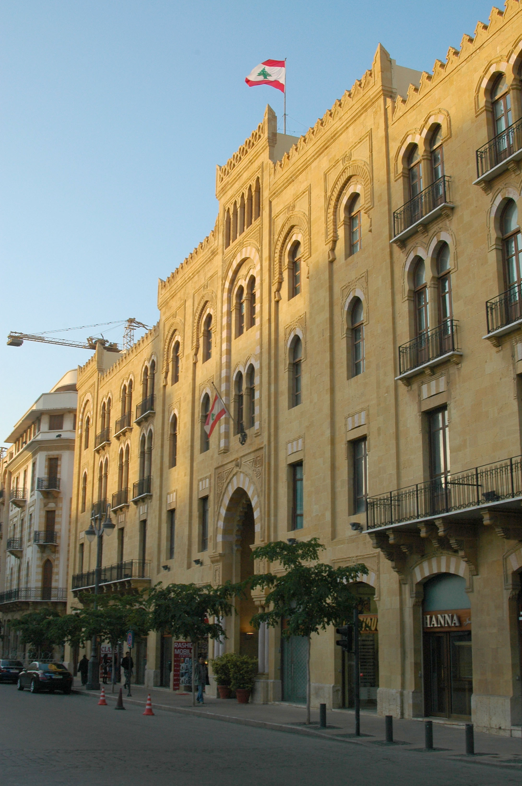 Empty downtown shops